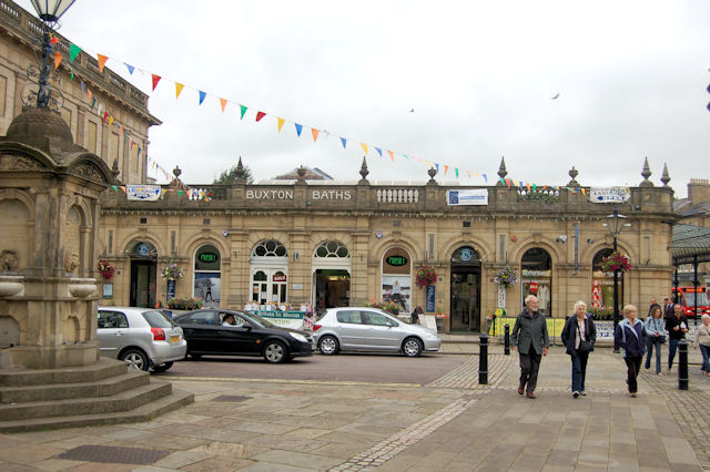 Buxton Baths entrance.